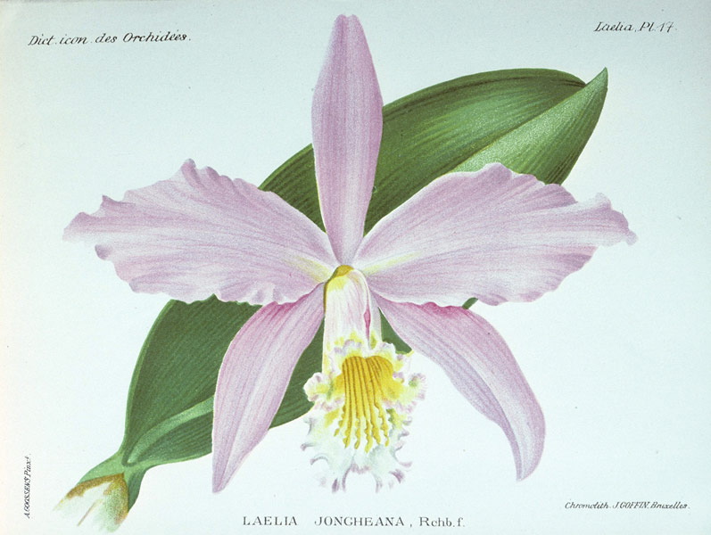 Laelia jongheana